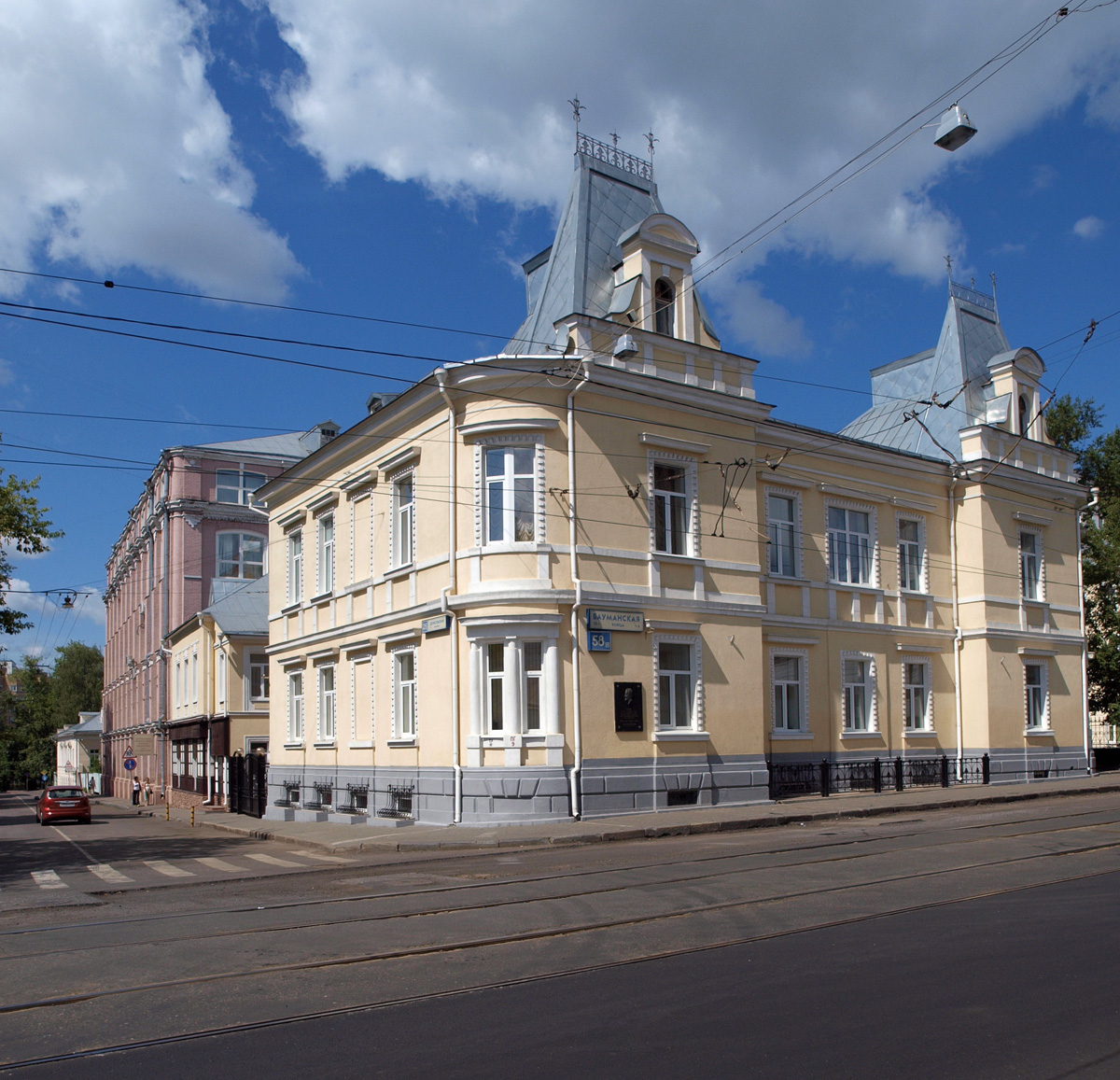 Baumanskaya Street, Moscow - corner of Denisovsky Lane.